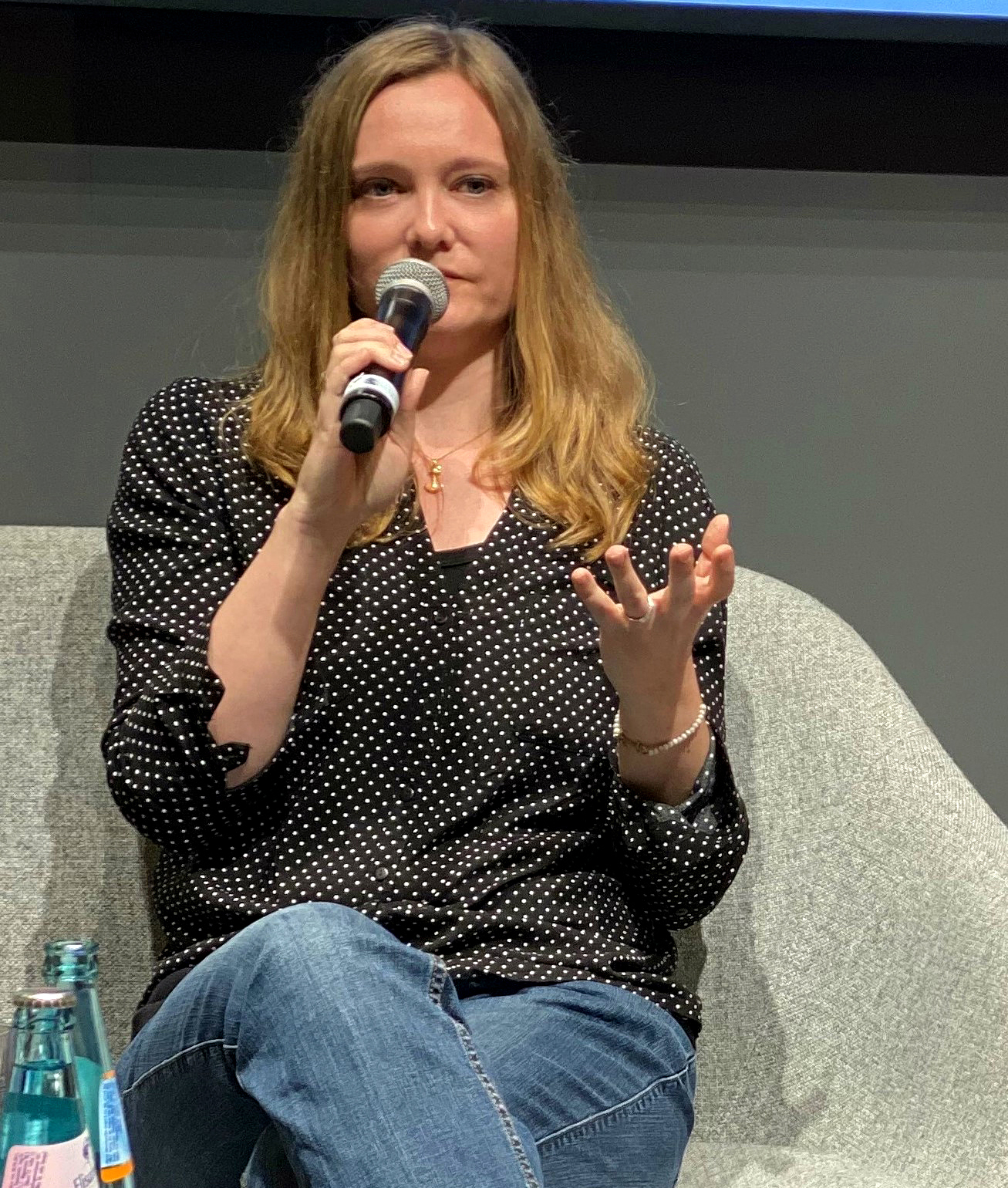 C. R. Scott at the Frankfurt Book Fair 2019